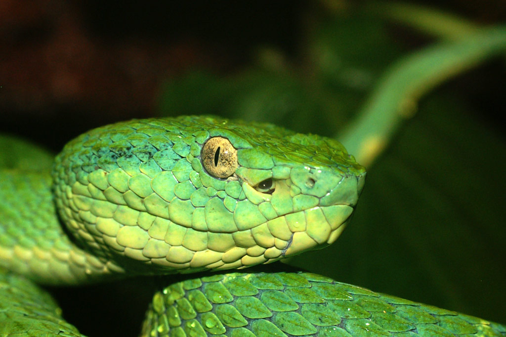 striped palm pitviper